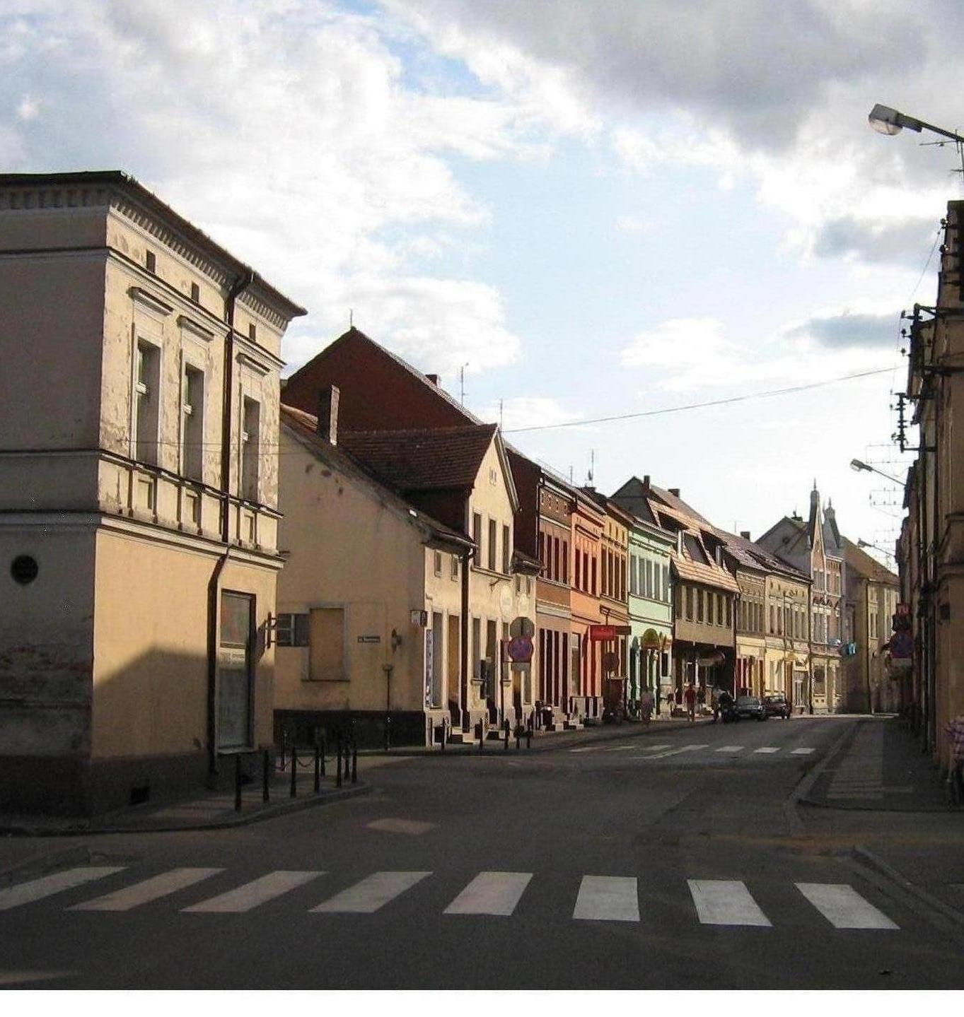 Poznanska-Street, Buk (Poland)